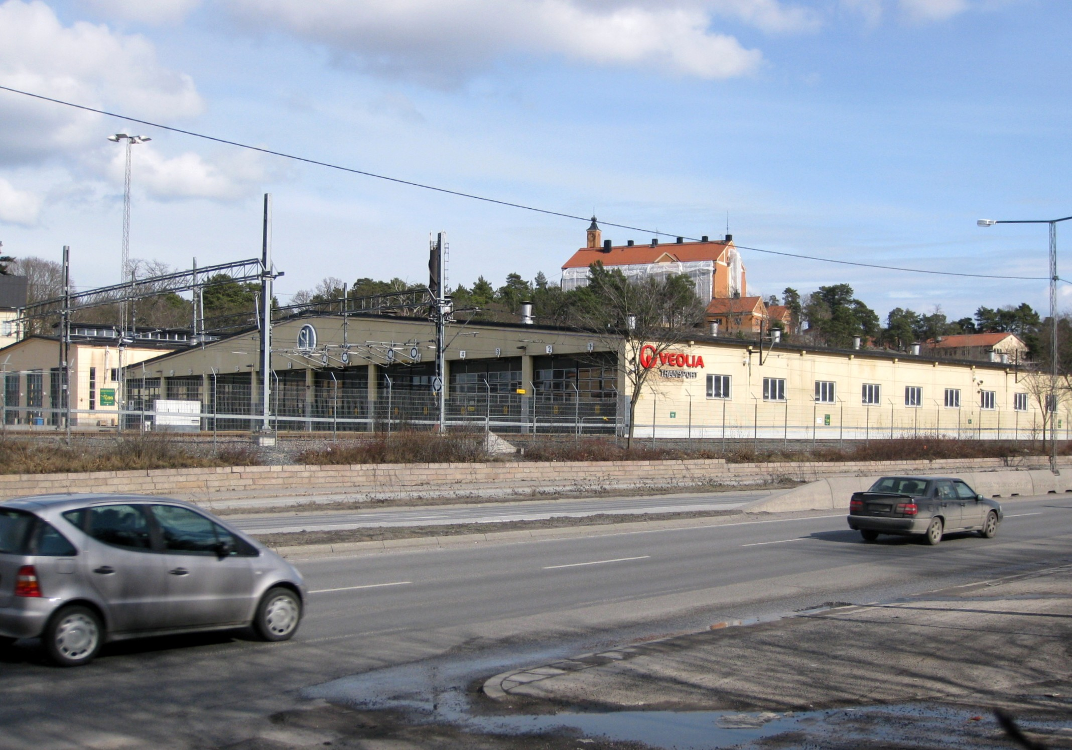 Subway depot at Bromma, western Stockholm, Sweden